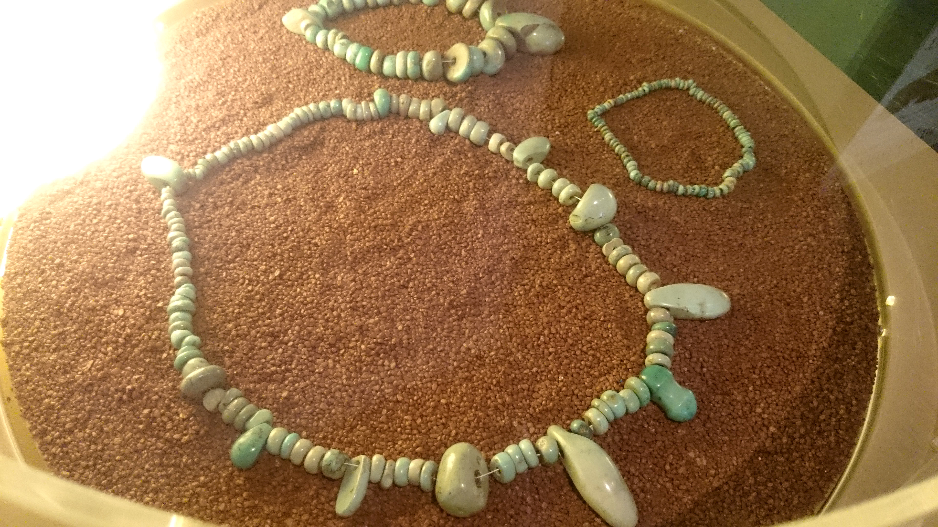 Necklace made with Variscite. Neolithic. Find in 1853 in the Tumulus of Tumiac, near Carnac, in France. exposition of the Vannes archeologic museum